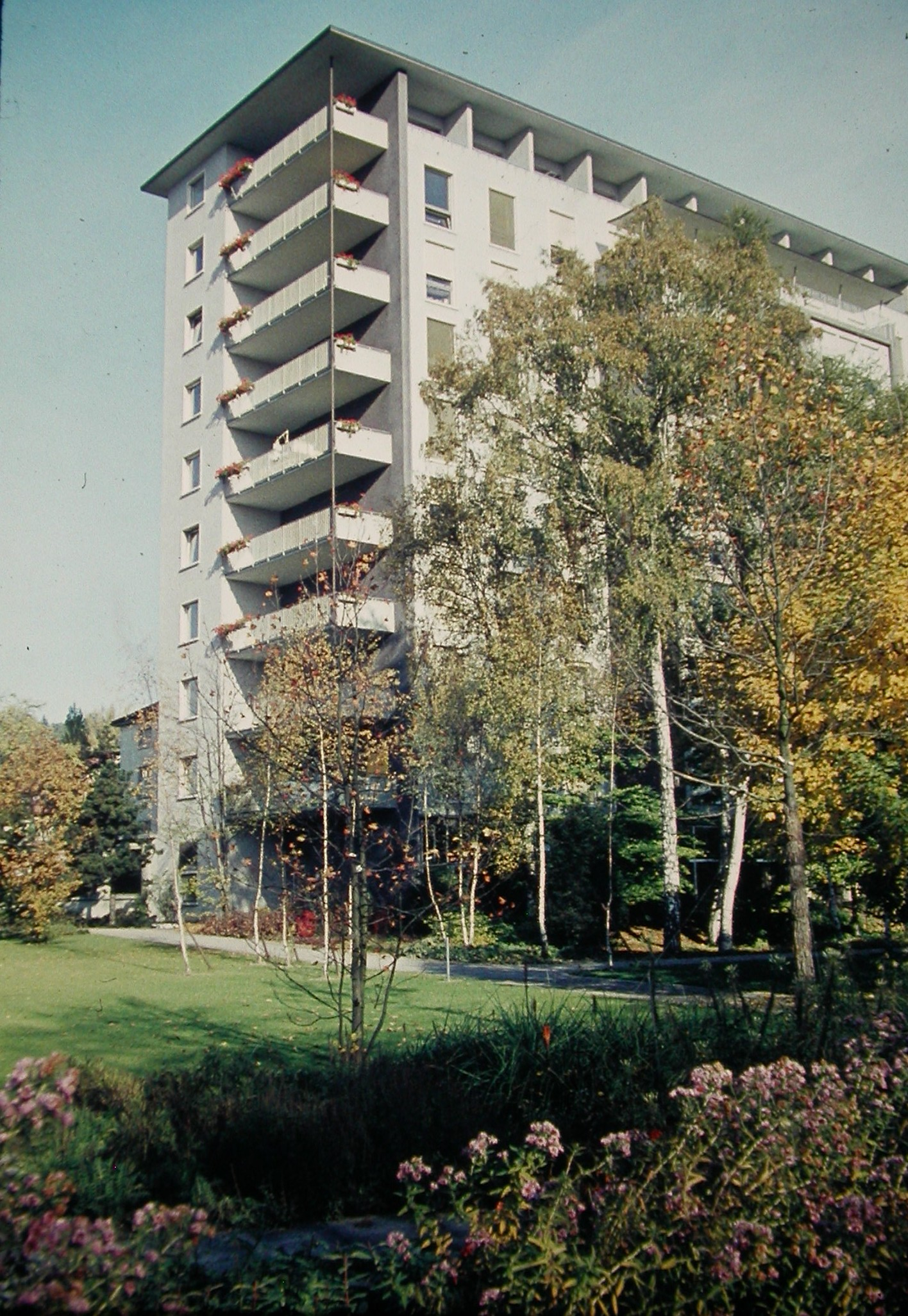 Kantonsspital Winterthur one year after opening of this new building